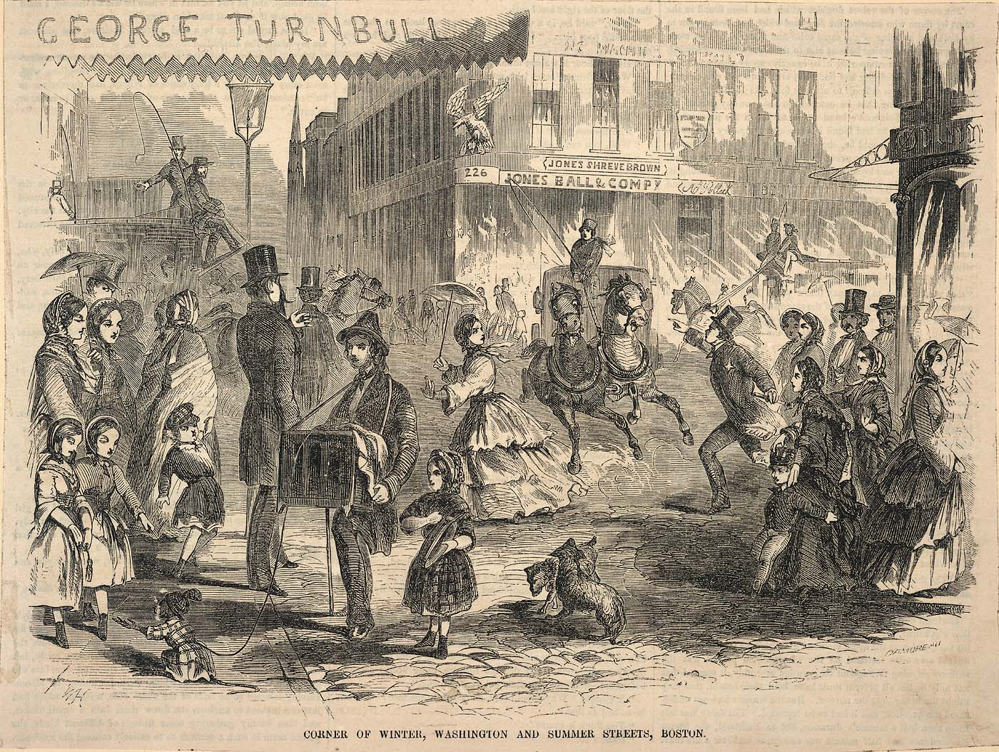 Corner of Winter, Washington and Summer Streets, Boston, from Ballou's Pictorial Drawing-Room Companion, Saturday, June 13, 1857